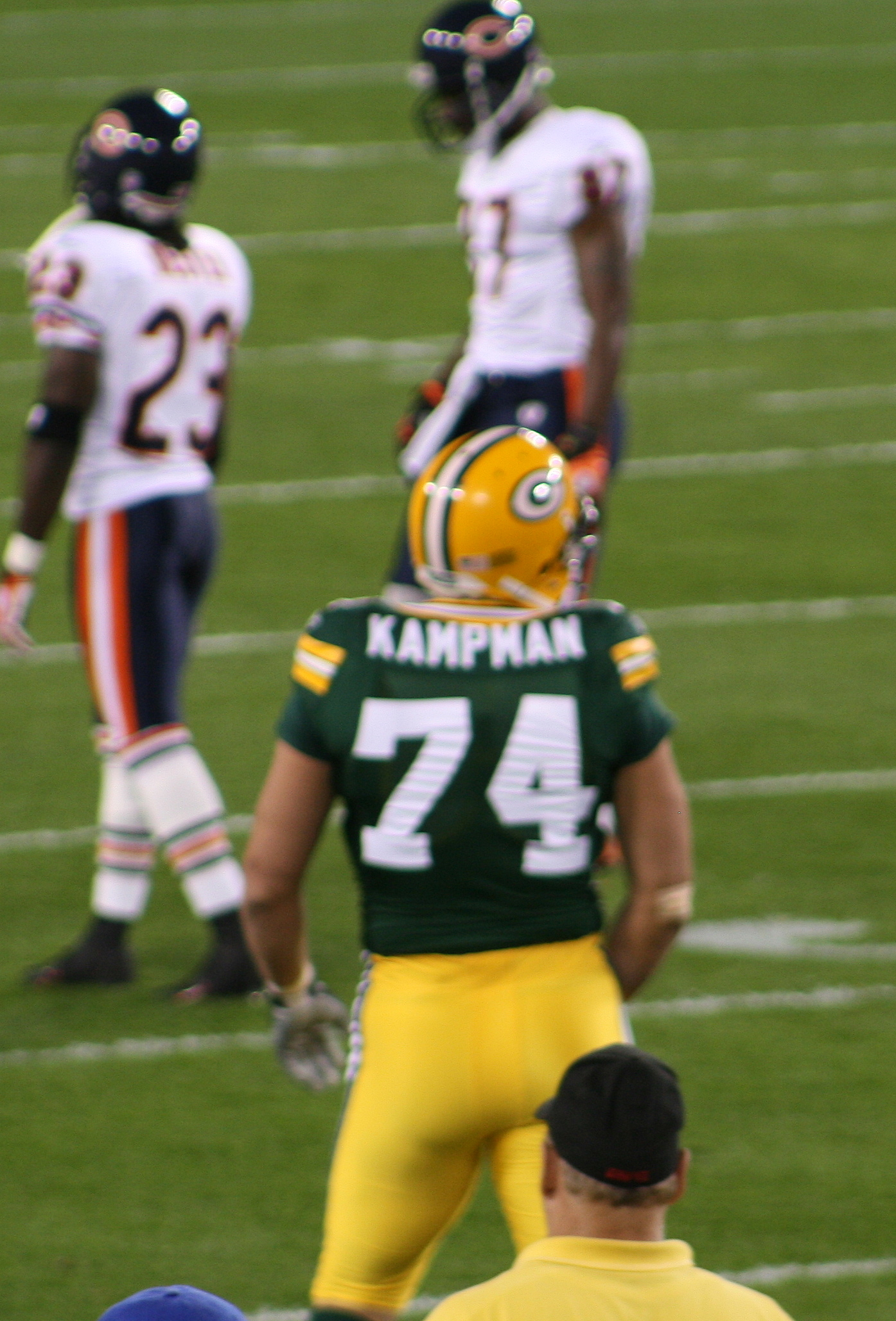 Defensive end Aaron Kampman warming up before a game at Lambeau Field.